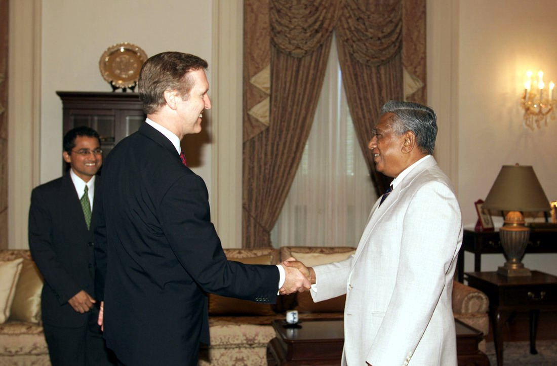 Sellapan Ramanathan (born 3 July 1924), commonly known as S.R. Nathan, who has been President of Singapore since 1 September 1999, receiving William Cohen (born 28 August 1940) who was United States Secretary of Defense (1997–2001) under President Bill Clinton, at the Istana Singapore.